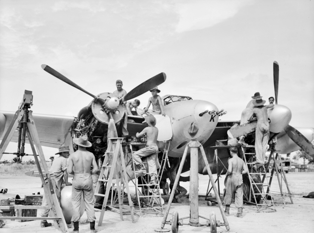 AWM caption : Labuan, North Borneo. Mosquito aircraft of No. 1 Squadron RAAF now operating against Japanese targets in Borneo are kept at concert pitch by the ground crews who are as proud of their aircraft as the men who fly them. Shown a Mosquito aircraft undergoing a thorough overhaul in readiness for exacting missions ahead.